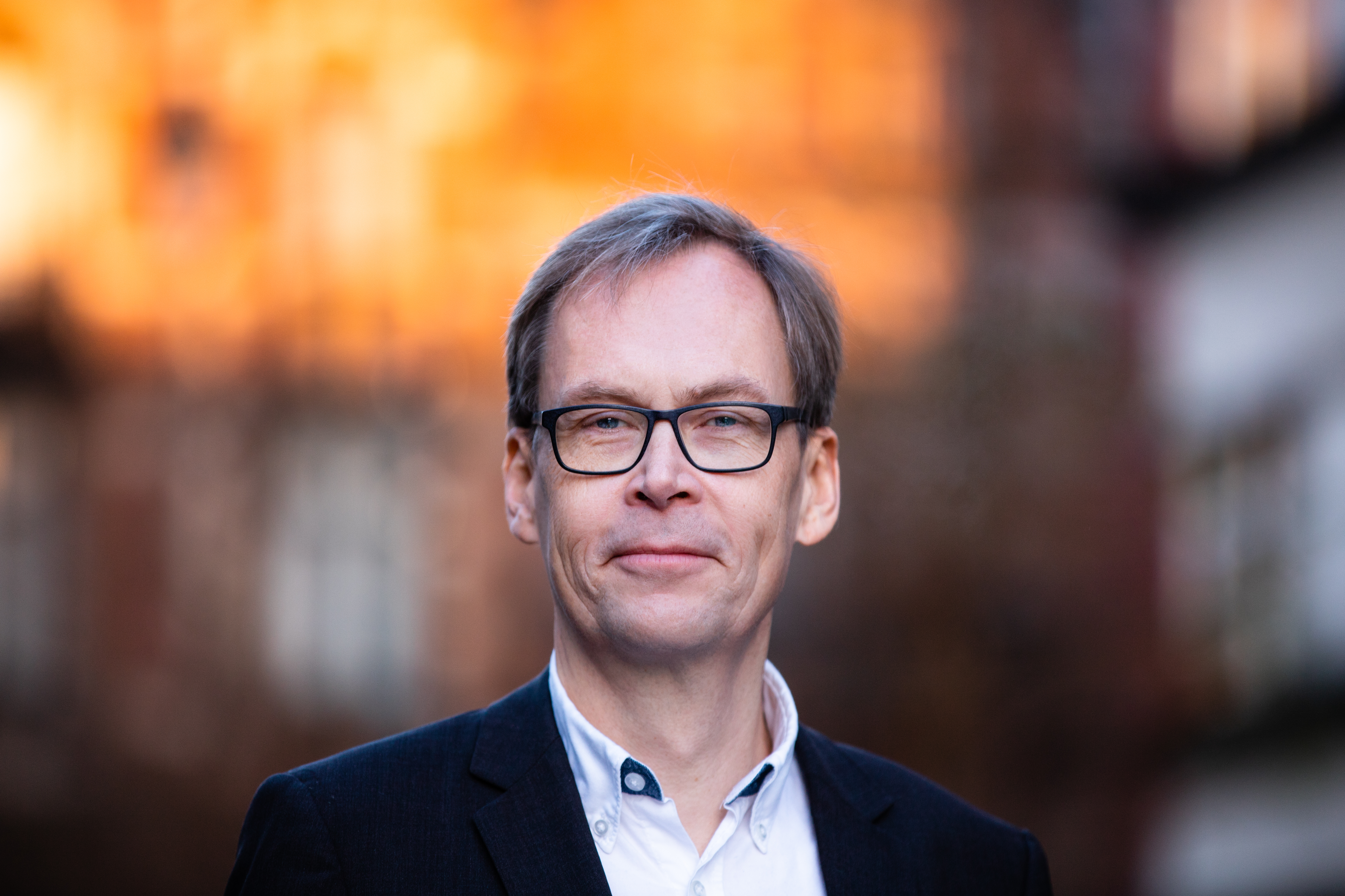 Portrait of Kaj Arnö. Shot during FOSDEM 2019 in Brussels.